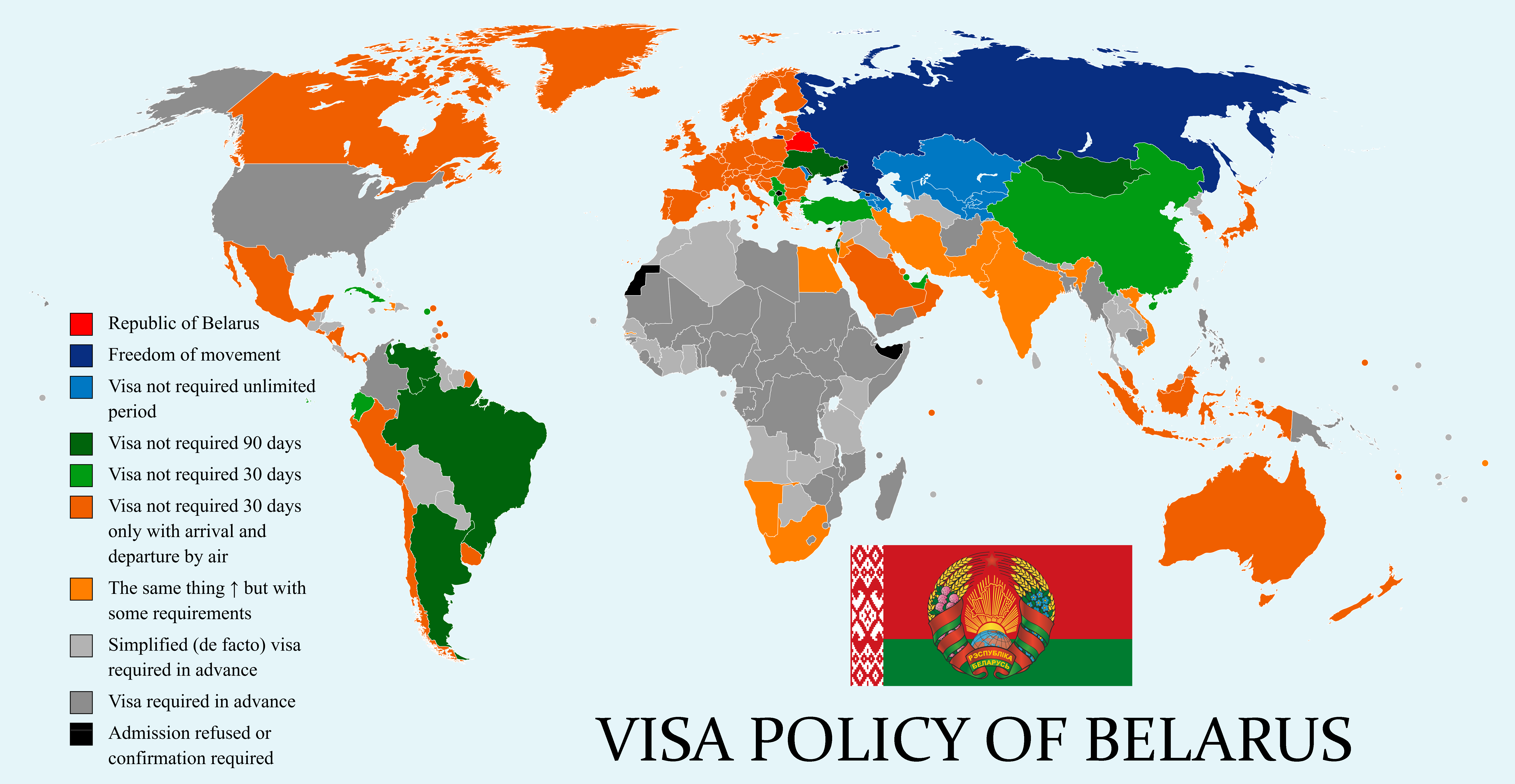 Visa policy of Belarus Belarus Visa exemption for entry through all international border crossings Visa exemption when arriving at and departing from Minsk National Airport Visa exemption when arriving at and departing from Minsk National Airport for holders of a used multiple entry visa from a European Union or Schengen area member country Visa exemption for invitation letter or a tourist voucher holders Visa required in advance